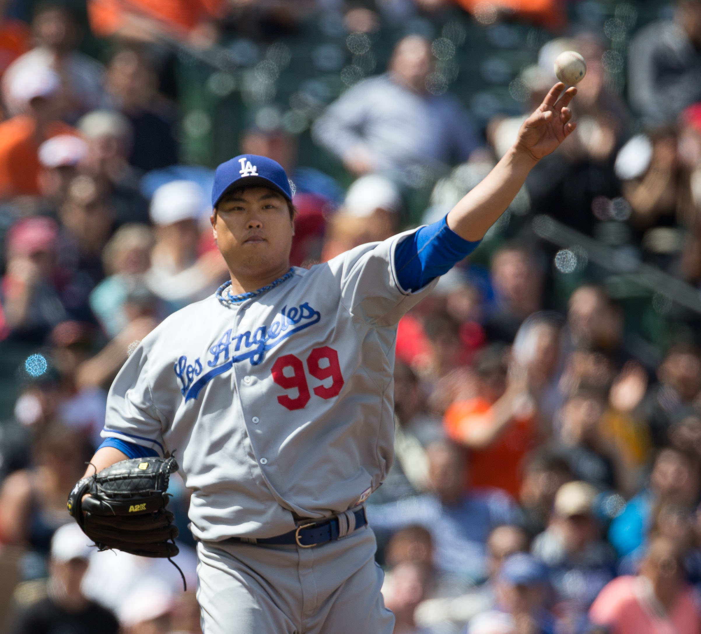 Los Angeles Dodgers at Baltimore Orioles April 20, 2013